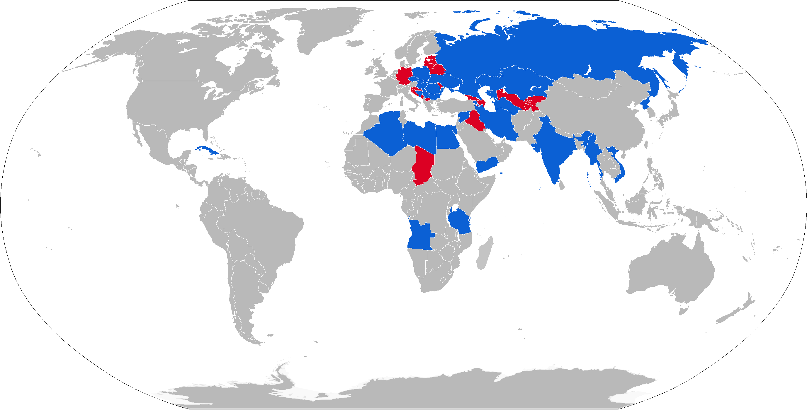 Map of 2K12 operators in blue with former operators in red